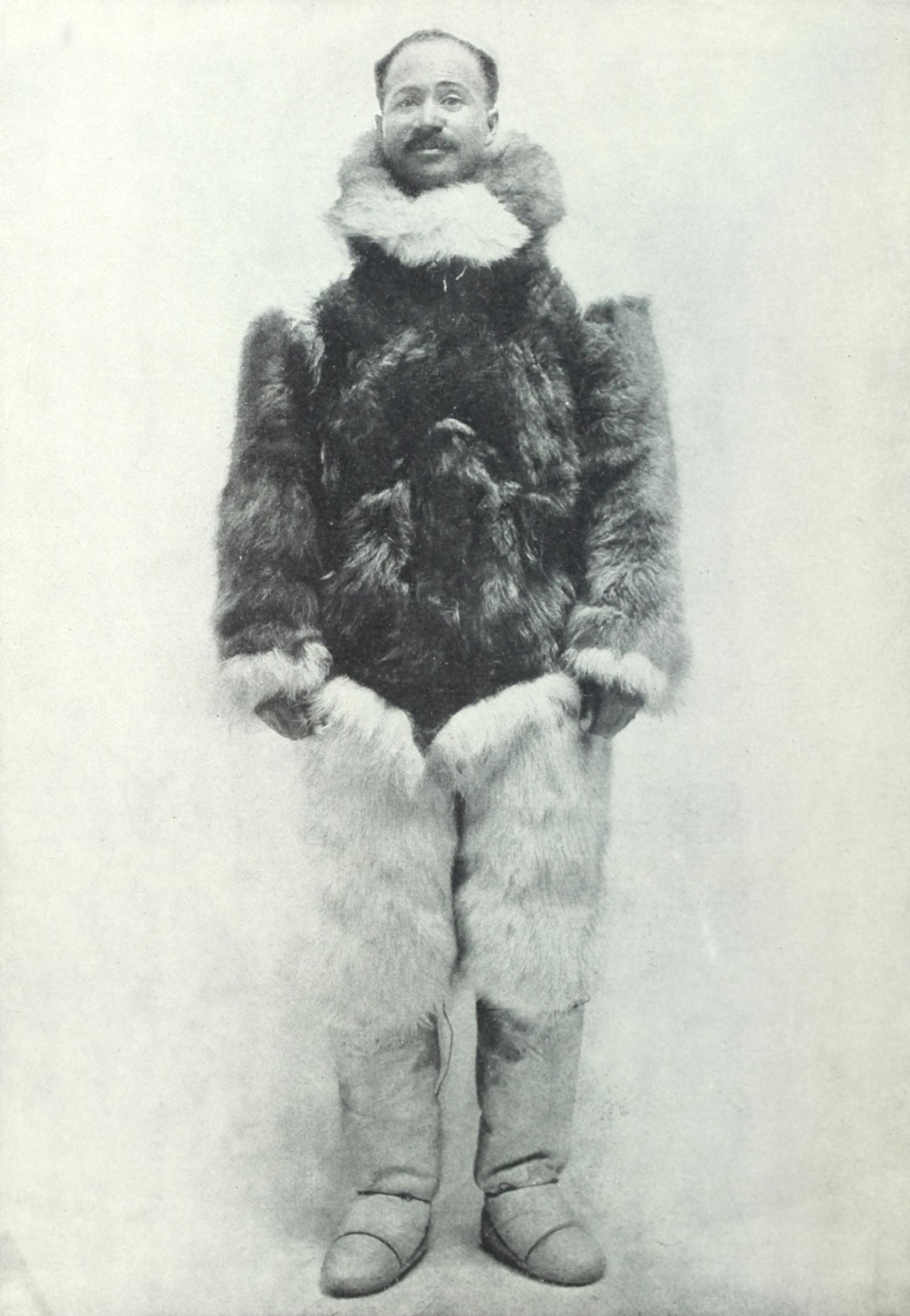 "The negro who reached the Pole."